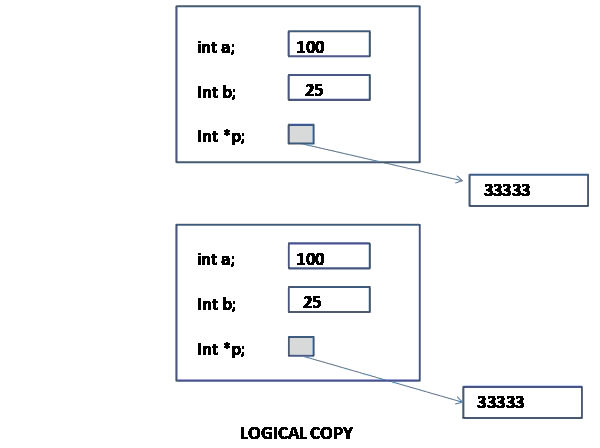 This is an image mainly to show the difference between logical copy constructor and bitwise copy constructor